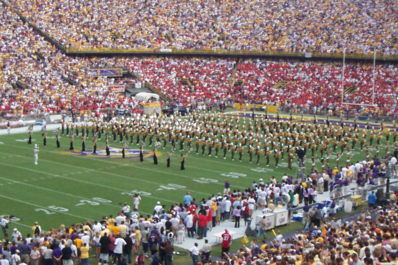 LSUbandpregame